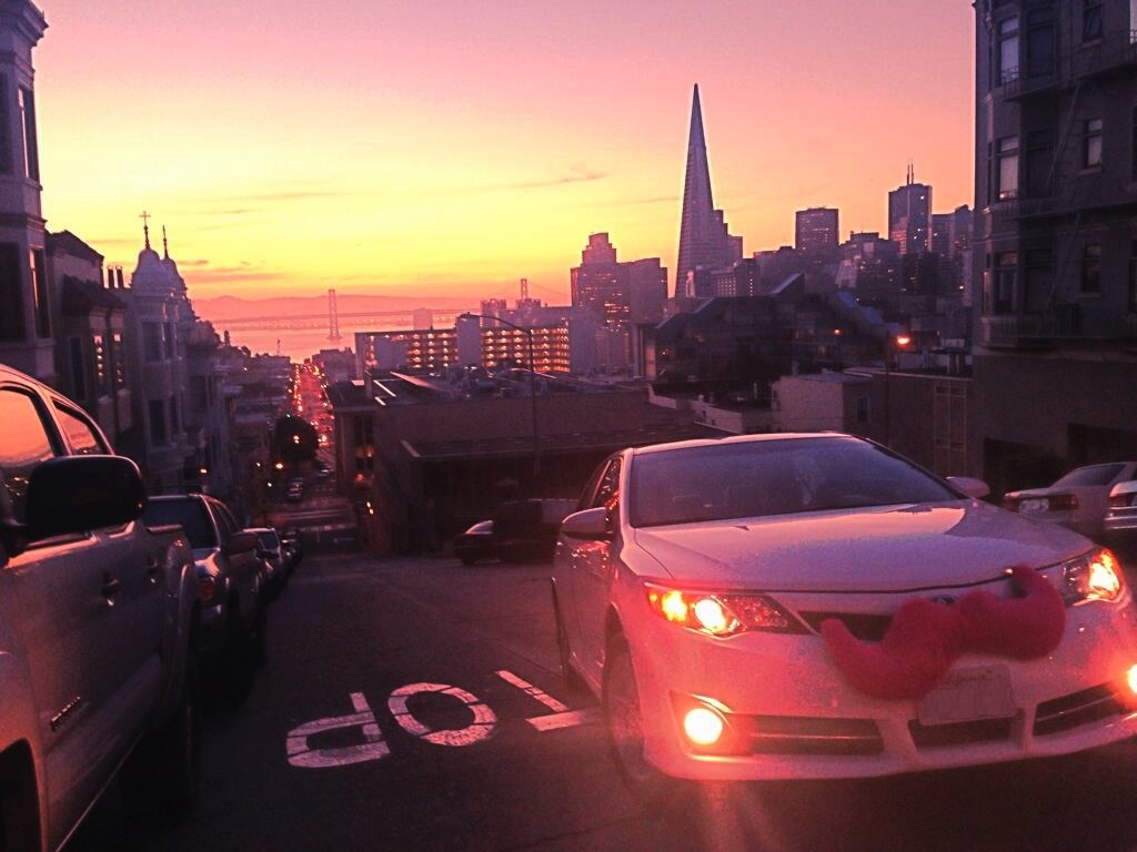 Lyft's pink car mustache